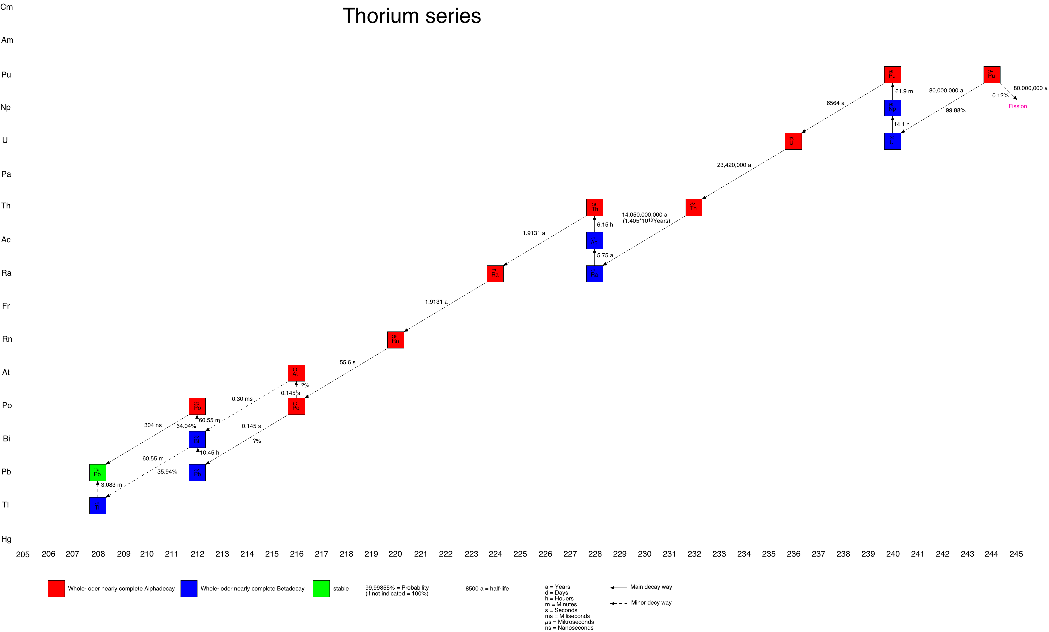 The Thorium series.